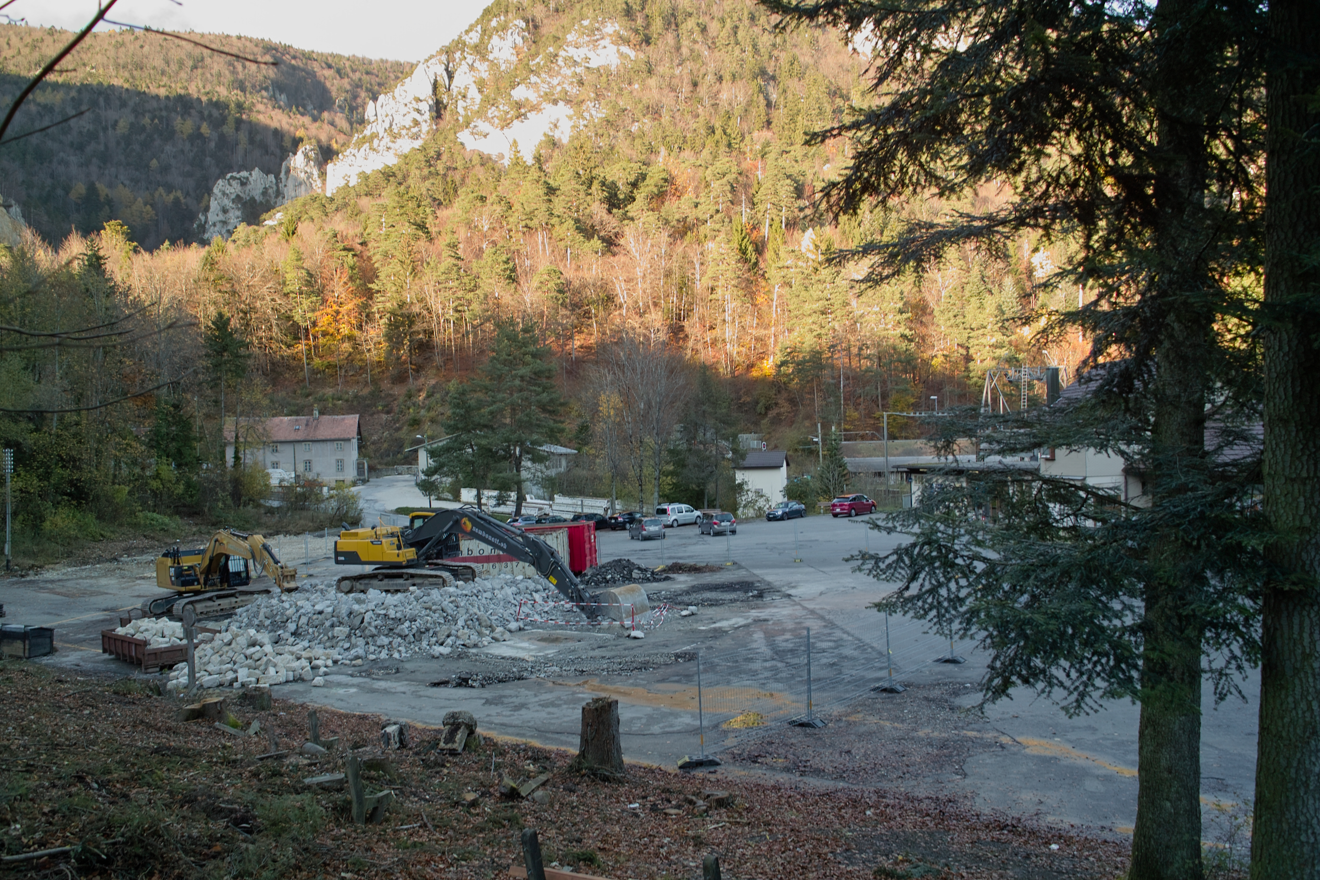 Remains of the demolished valley station of the chairlift Oberdorf-Weissenstein, canton of Solothurn, Switzerland.